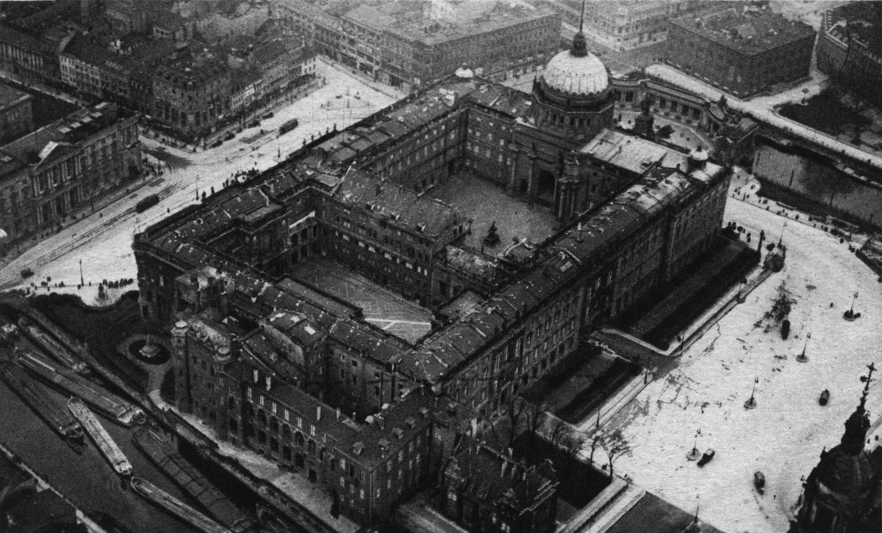 Aerial photo of the Stadtschloss ("city palace") in Berlin, torn down in 1950. In the upper right, the Kaiser Wilhelm National Memorial, removed at the same time